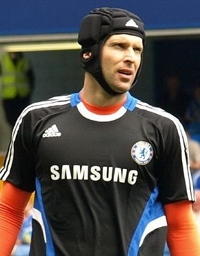 Petr Čech is a Czech international football goalkeeper who is currently contracted to English Premier League football club Chelsea.